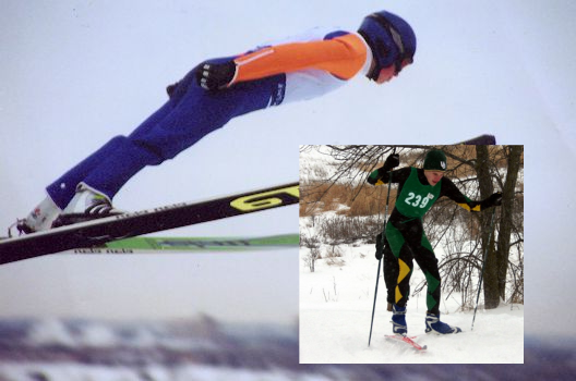 A ski jumper in Calgary, Canada. This my own personal picture, There are no copyrites